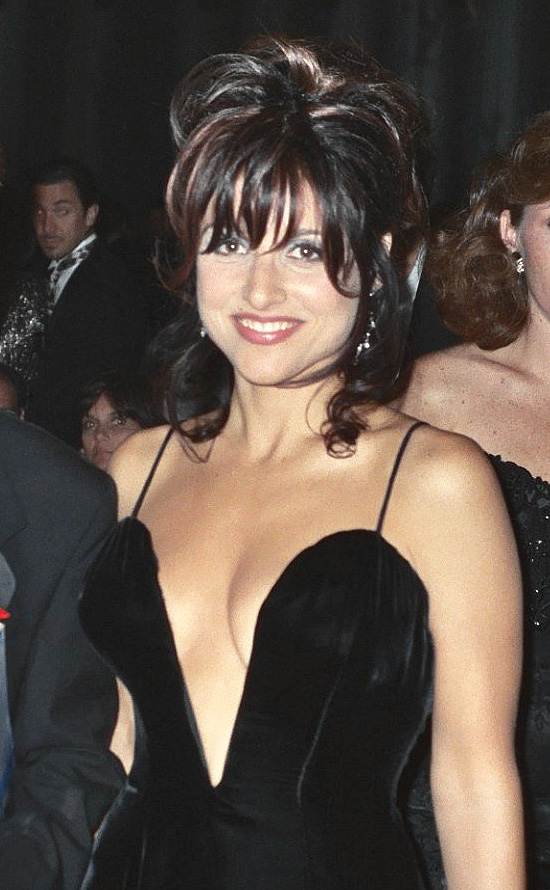 1995 Emmy Awards NOTE: Permission granted to copy, publish, broadcast or post any of my photos, but please credit "photo by Alan Light" if you can. Thanks. Scanned from the original 35MM film negative.